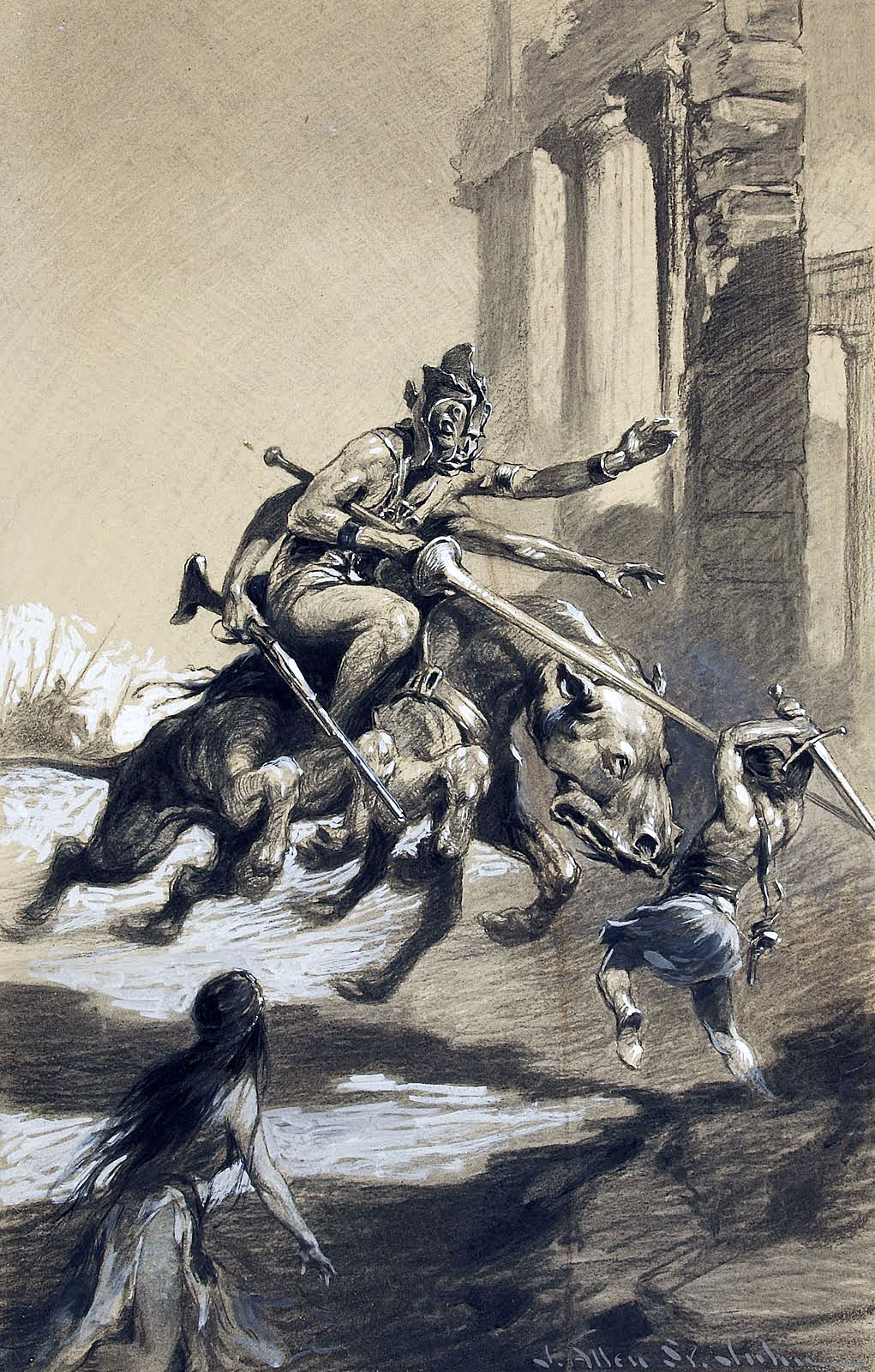 Art for Thuvia, Maid of Mars by Edgar Rice Burroughs, McClurg, 1920.